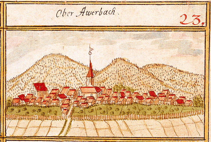 View of Oberurbach, Urbach, from the forest register books created by Andreas Kieser